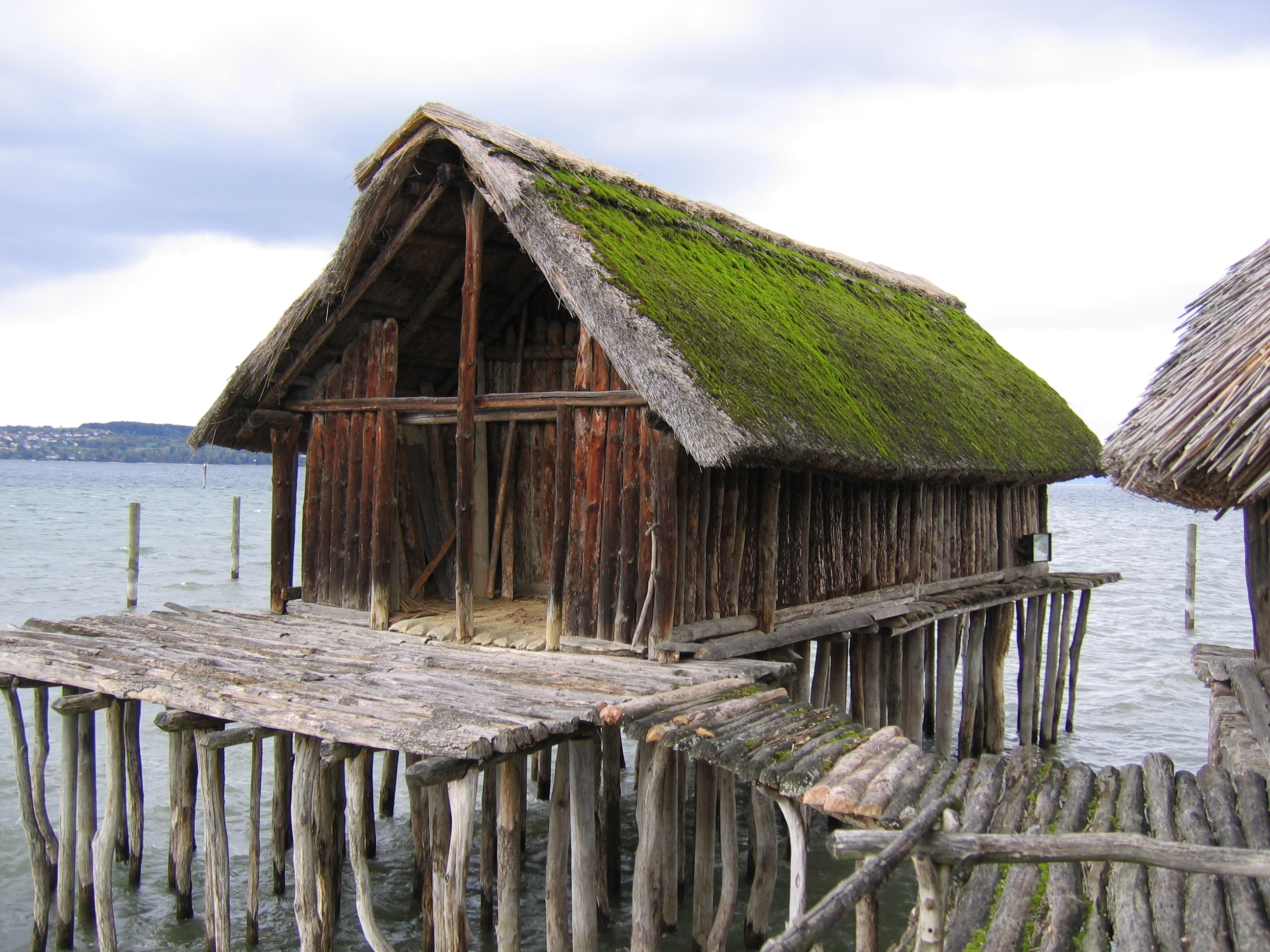 Germany - Baden-Württemberg - Bodenseekreis - Uhldingen-Mühlhofen: Pfahlbaumuseum Unteruhldingen, stone age house 'Schussenried'